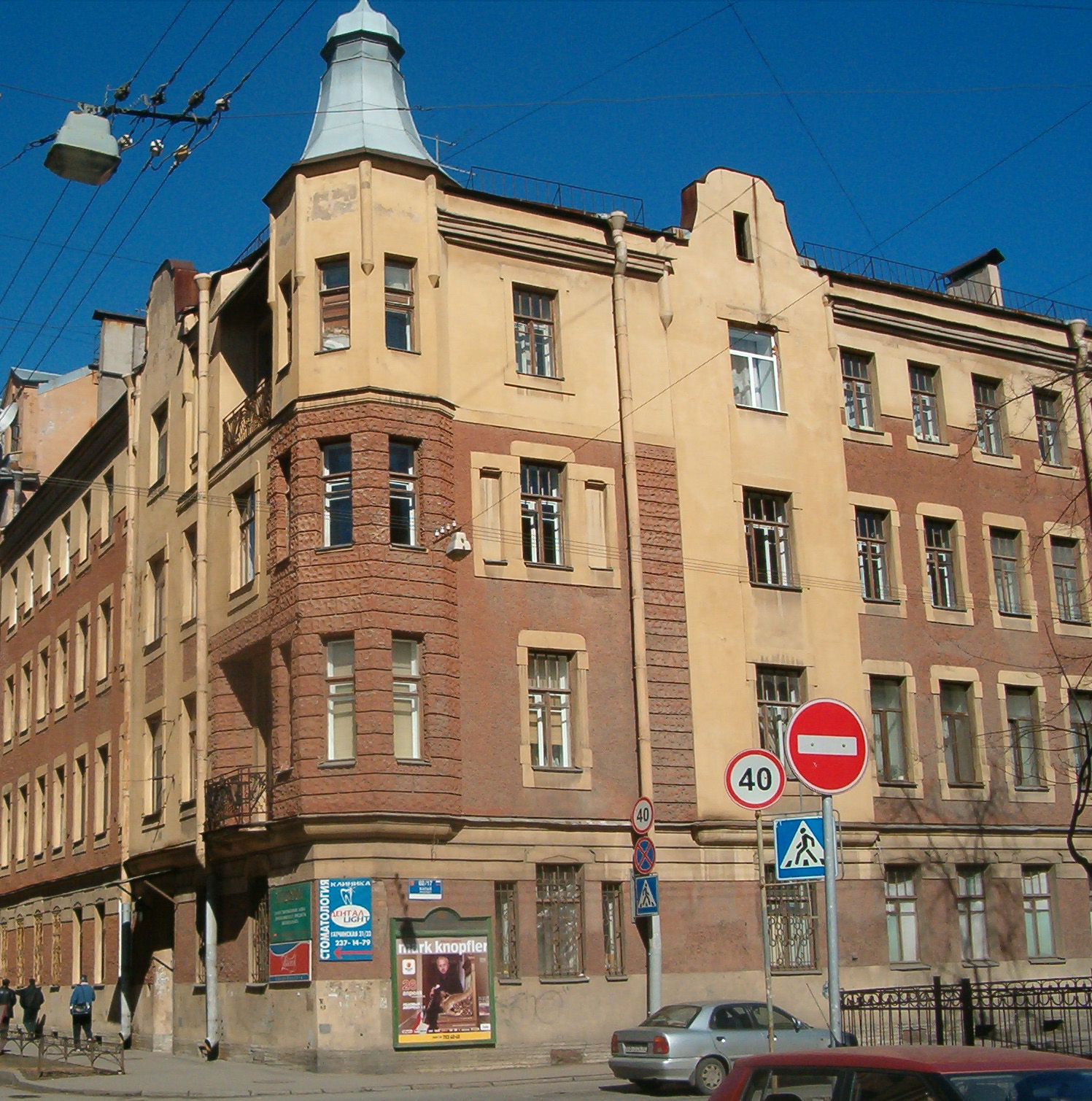 Gatchinsraya st., 17 / Malyi Prospekt (Small Av.) of Petrograd side, 60 (Saint-Petersburg, Russia). Architect D. A. Kryzhanovsky, 1903.